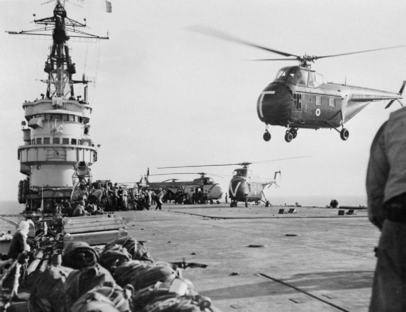 Royal Navy Westland Whirlwind helicopters taking the first men of 45 Royal Marine Commando into action at Port Said from the commando carrier HMS Theseus (R64) during "Operation Musketeer".